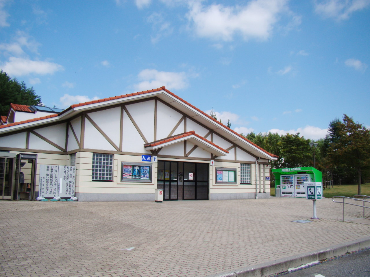 Nagano expressway Chikuhoku parking area Koshoku side Nagano Japan